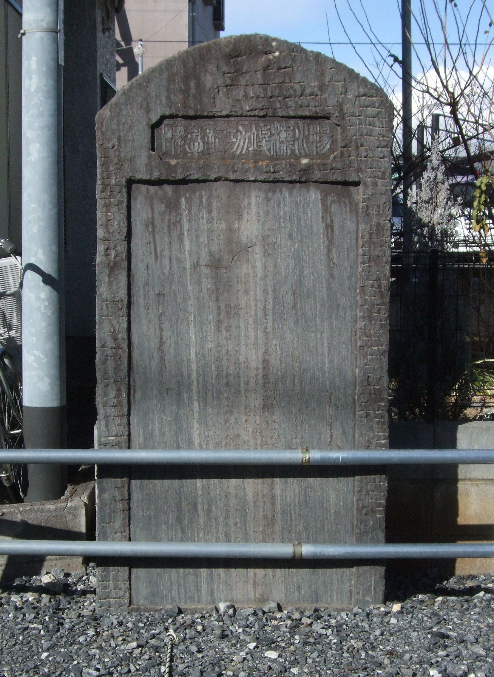 Irrigation pump monument in 1959, Kuki-city, Saitama, Japan.